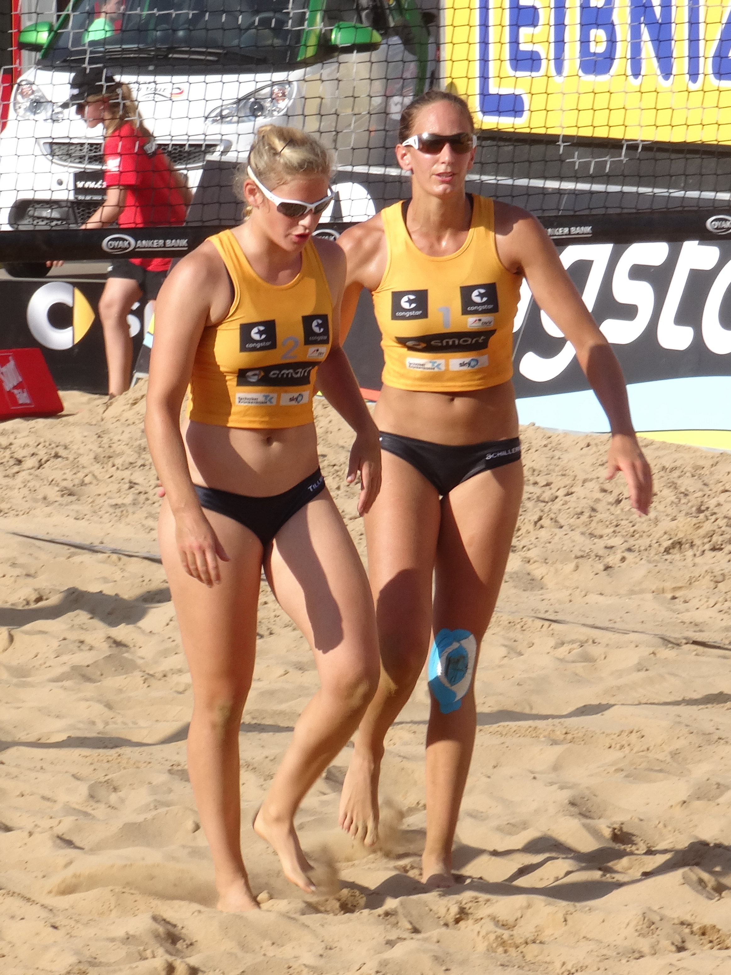 Cinja Tillmann and Katharina Schillerwein, Smart Beach Tour Dresden 2014